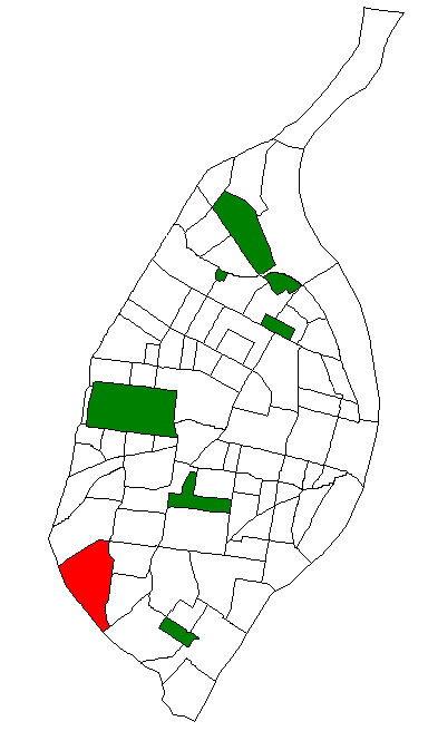 Map of St. Louis neighborhood #08